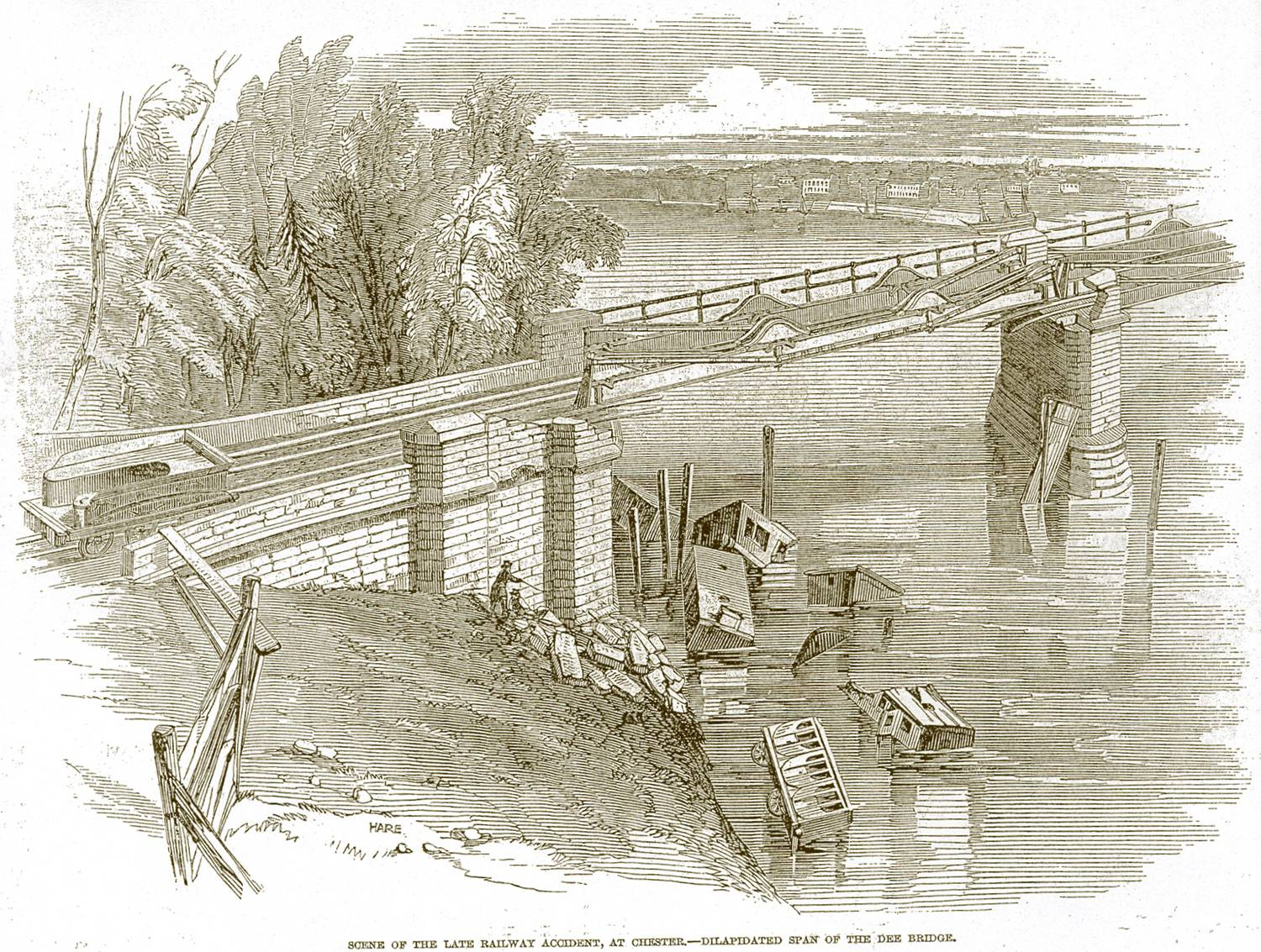 The Illustrated London News etching of Dee bridge disaster, 1847